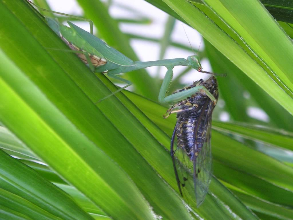 A female African mantis (Miomantis caffra) eating a New Zealand cicada species. Taken in uploader's back yard.